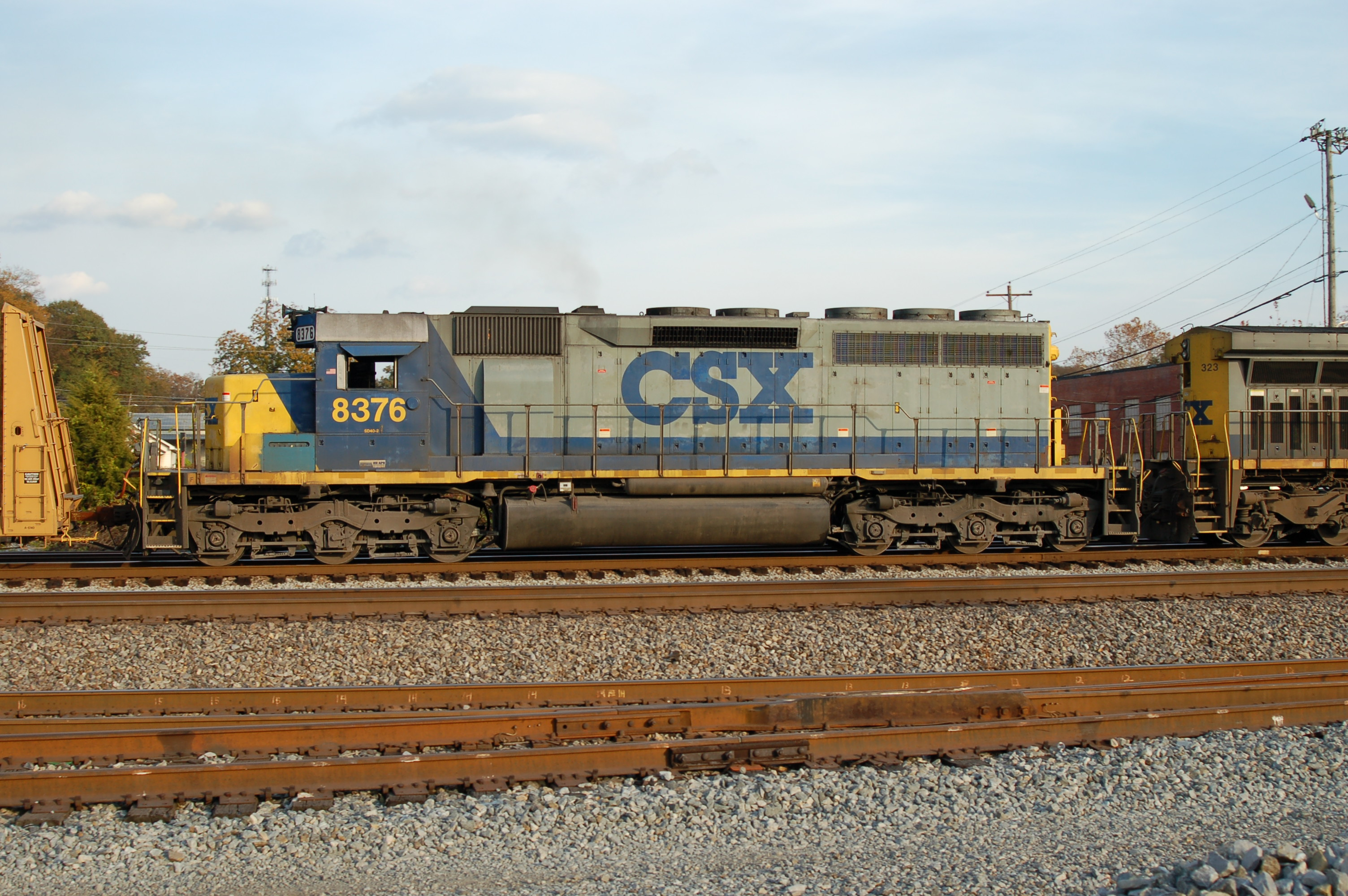 CSX SD40-2 8376 showing off the YN2 (Yellow Nose, 2nd version) paint scheme in Dalton.